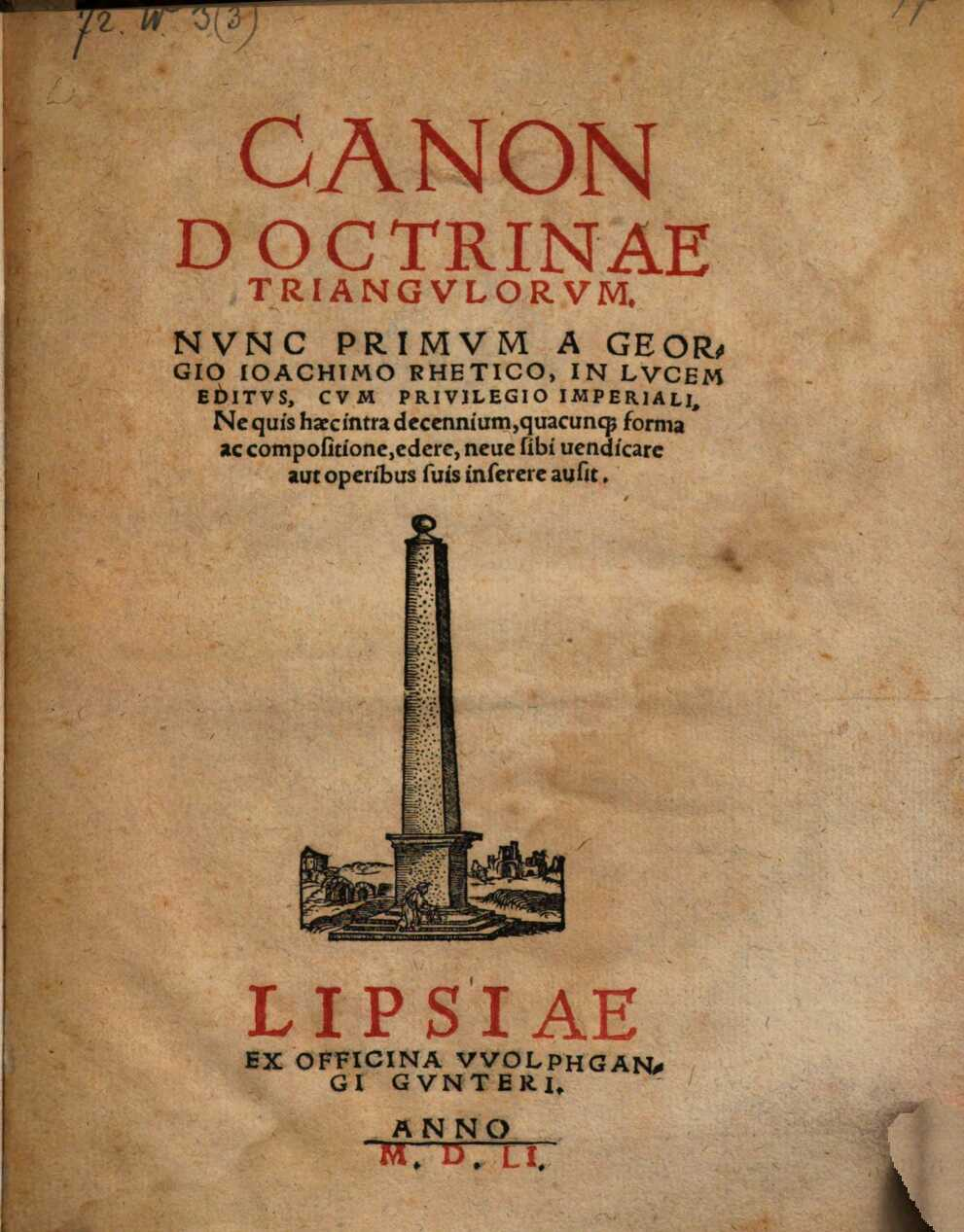 Title page of the "Canon doctrinae triangulorum" by Rheticus, Imp. Wolfgang Gunter Leipzig 1551, first publication of six-function trigonometric tables (sine, cosine, tangent, secant, cosecant, cotangent)